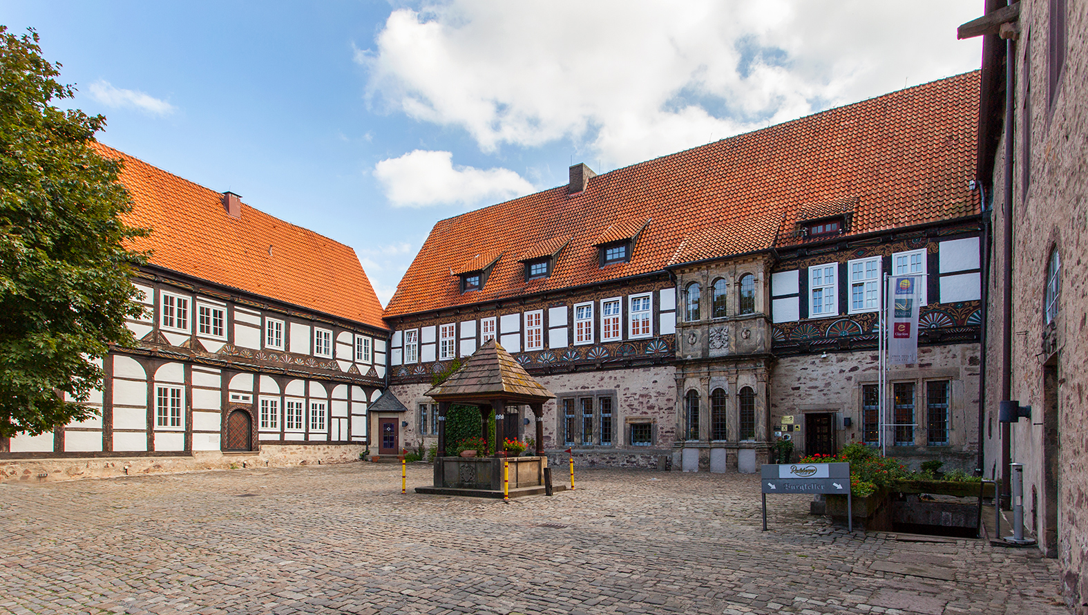 Blomberg castle, Germany, view to the courtyard This is a photograph of an architectural monument.